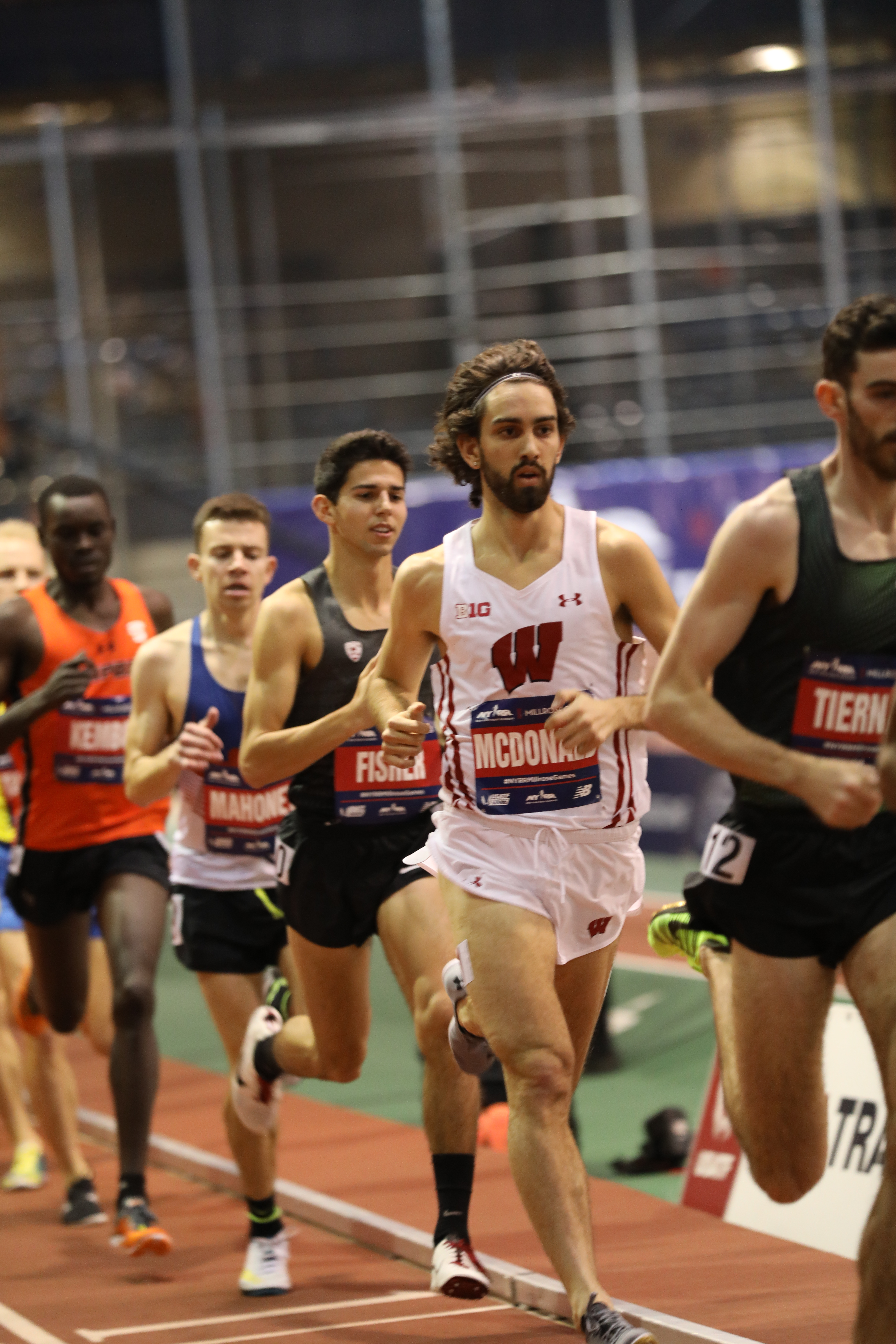 2019 Millrose Games